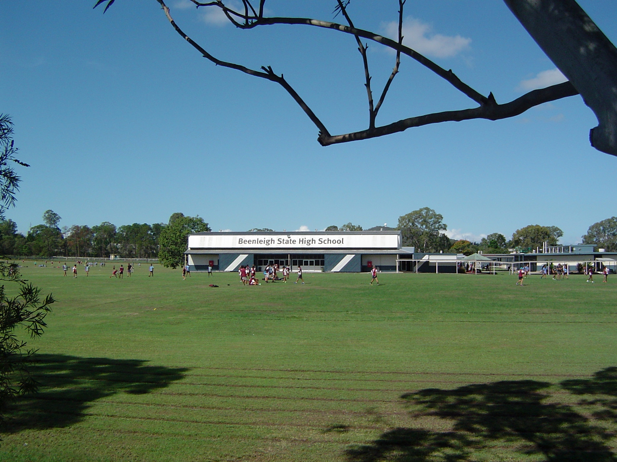 Photo of sports oval and school buildings, Beenleigh State High School at Beenleigh, Queensland, Australia.